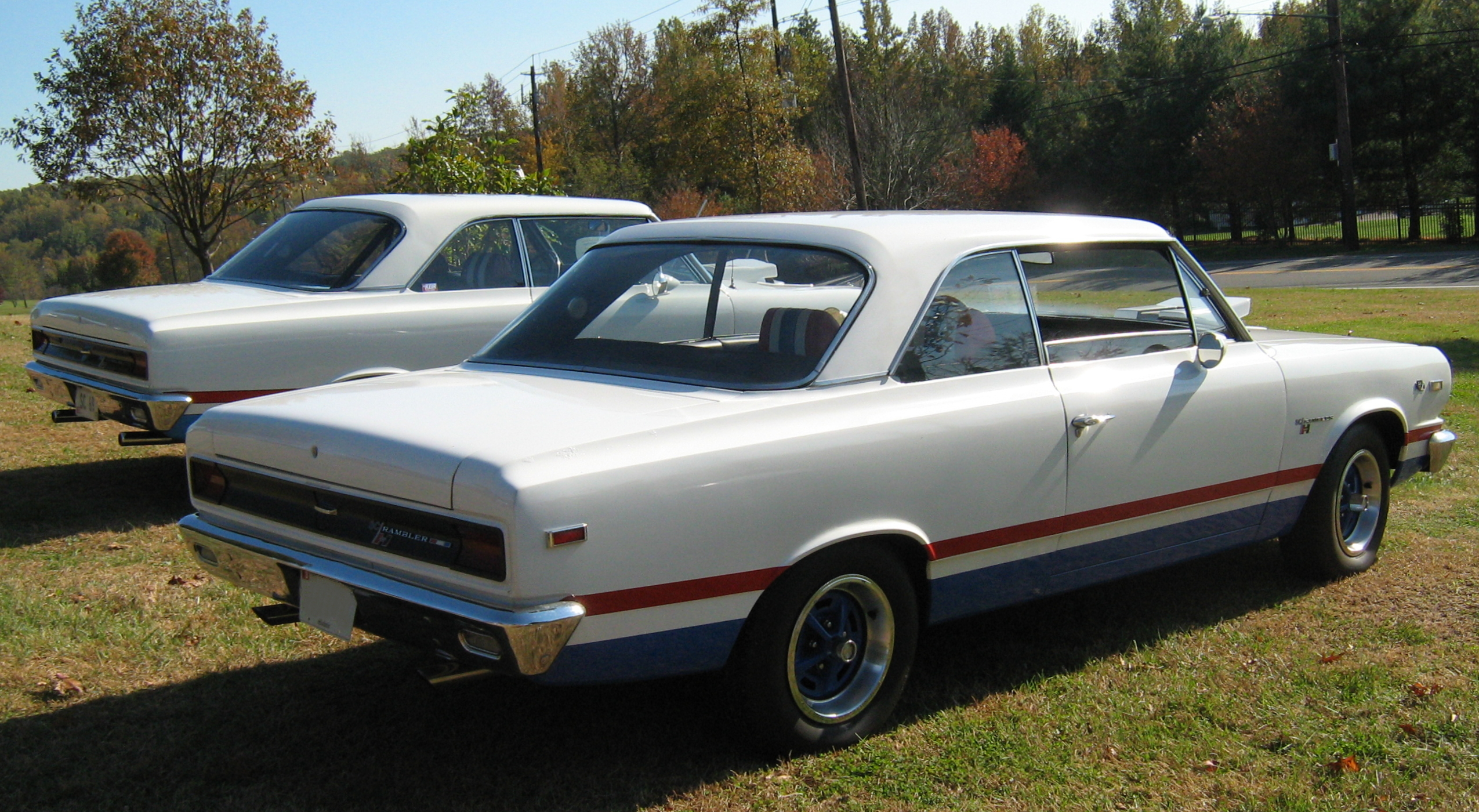 1969 SC/Rambler - a compact two-door hardtop compact muscle car produced by American Motors Corporation (AMC) in collaboration with Hurst Performance. This car has the "B" paint scheme. The second car is also a "B" scheme, but has aftermarket wheels and exhaust tips. Picture taken at a meeting of the Potomac Ramblers Auto Club in Maryland.